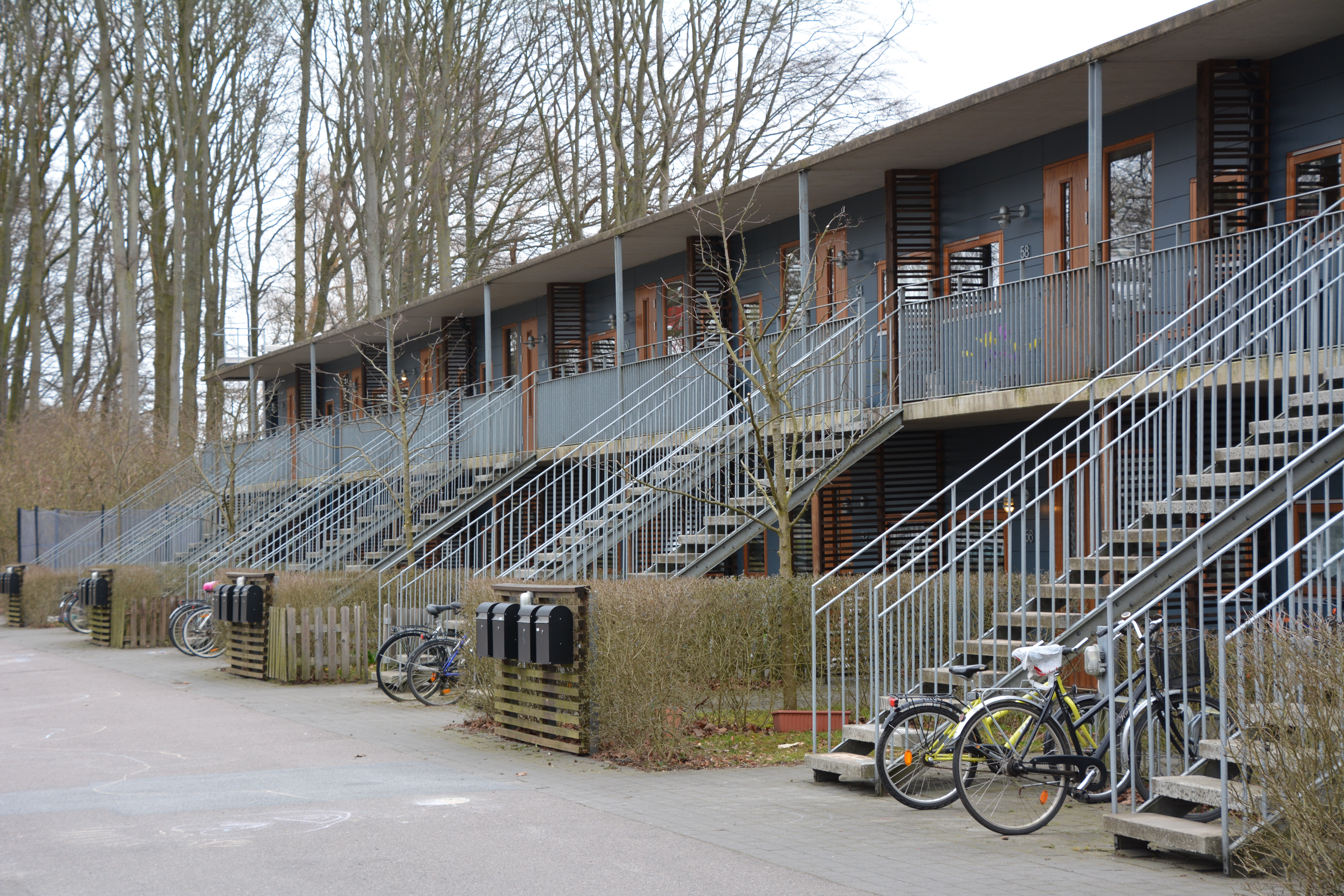 Hus vid Vipemöllevägen i Lund